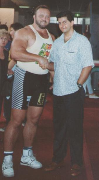 Coach Paolo Tassetto with powerlifter Bill Kazmaier in 1990